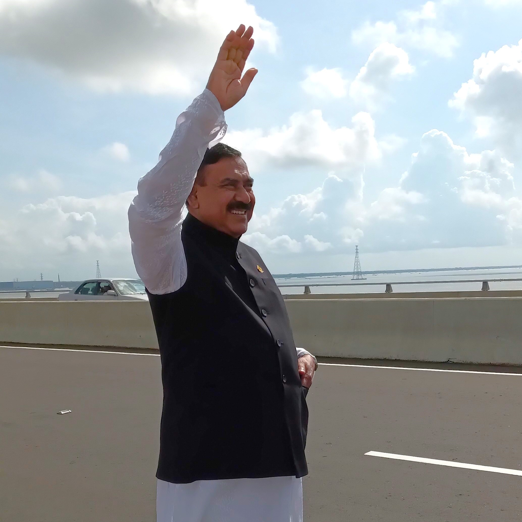 Shajahan Khan, Shipping Minister